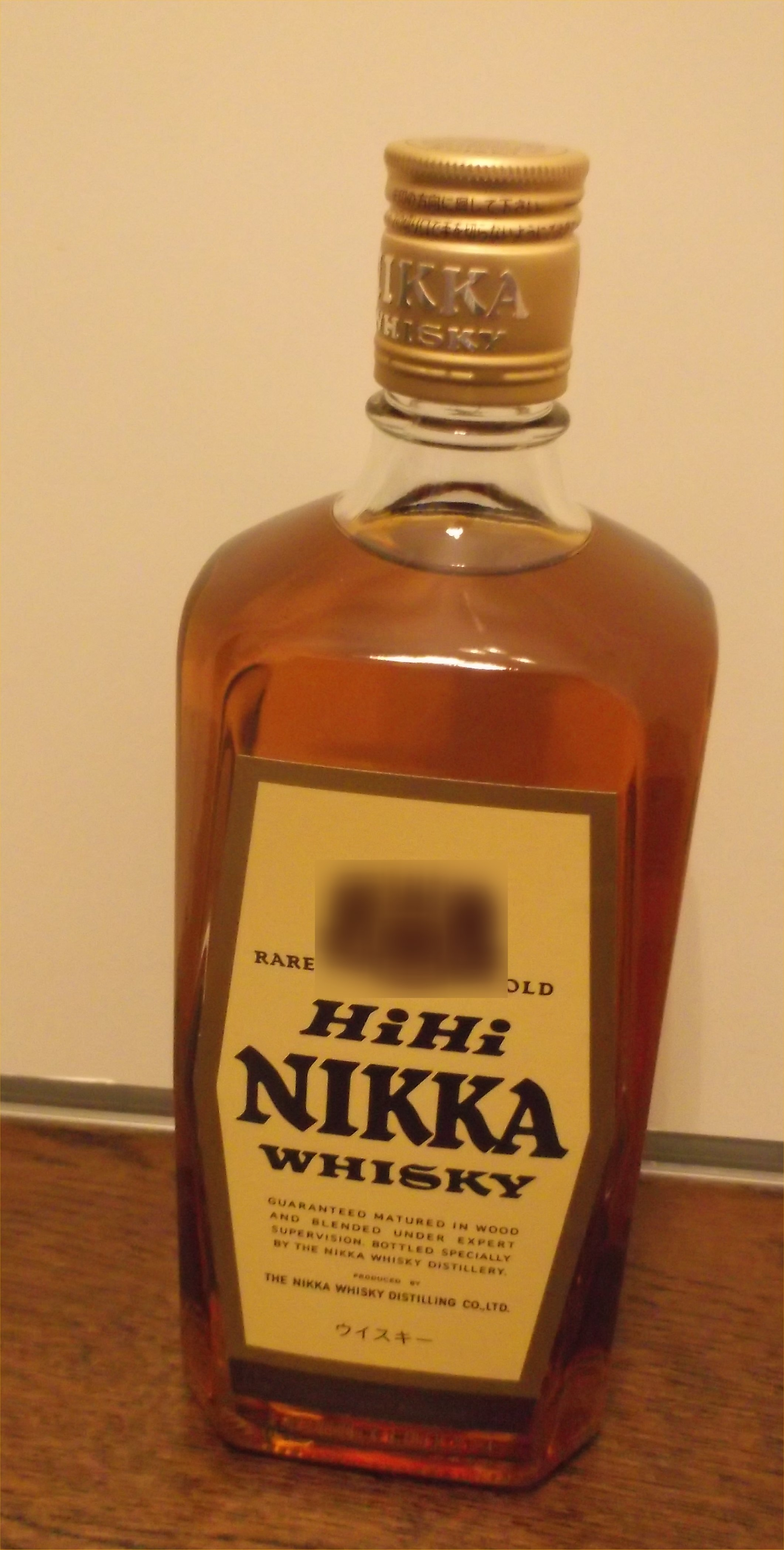 A photo of "Hi Nikka revival version"(2015)(a whisky in Japan.)